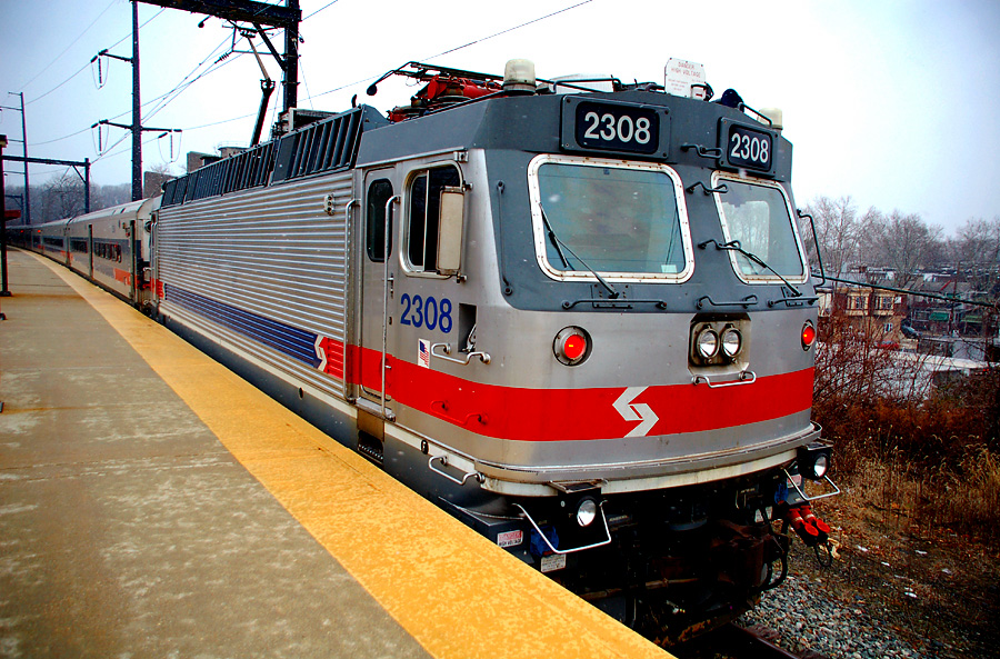 SEPTA's sole ALP-44 electric locomotive, seen here at the Fern Rock Transportation Center on a snowy January afternoon.